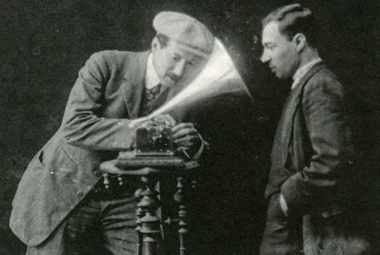 A photograph of Joel Engel, Russian composer and ethnomusicologist, with an Edison phonograph used in recording Jewish folk songs